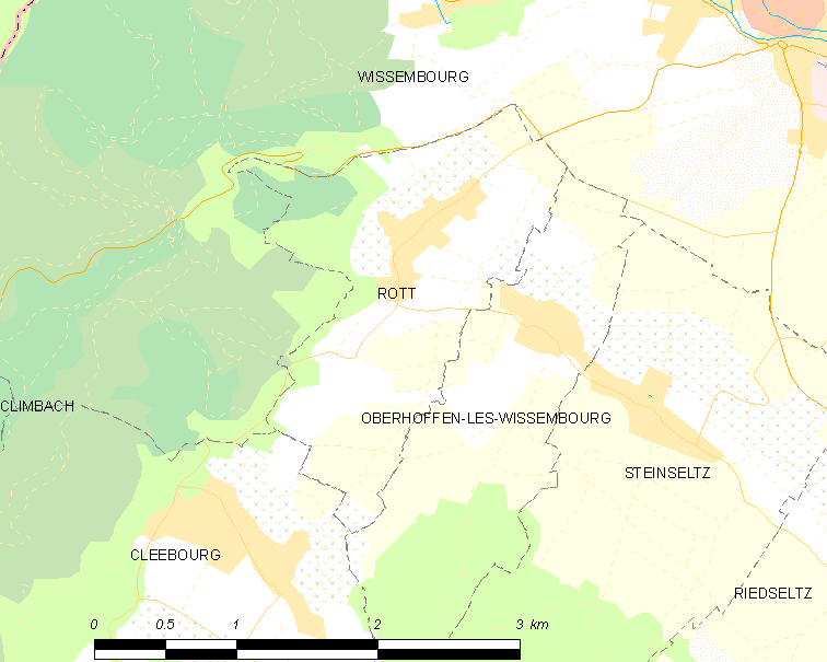 Map of French municipality